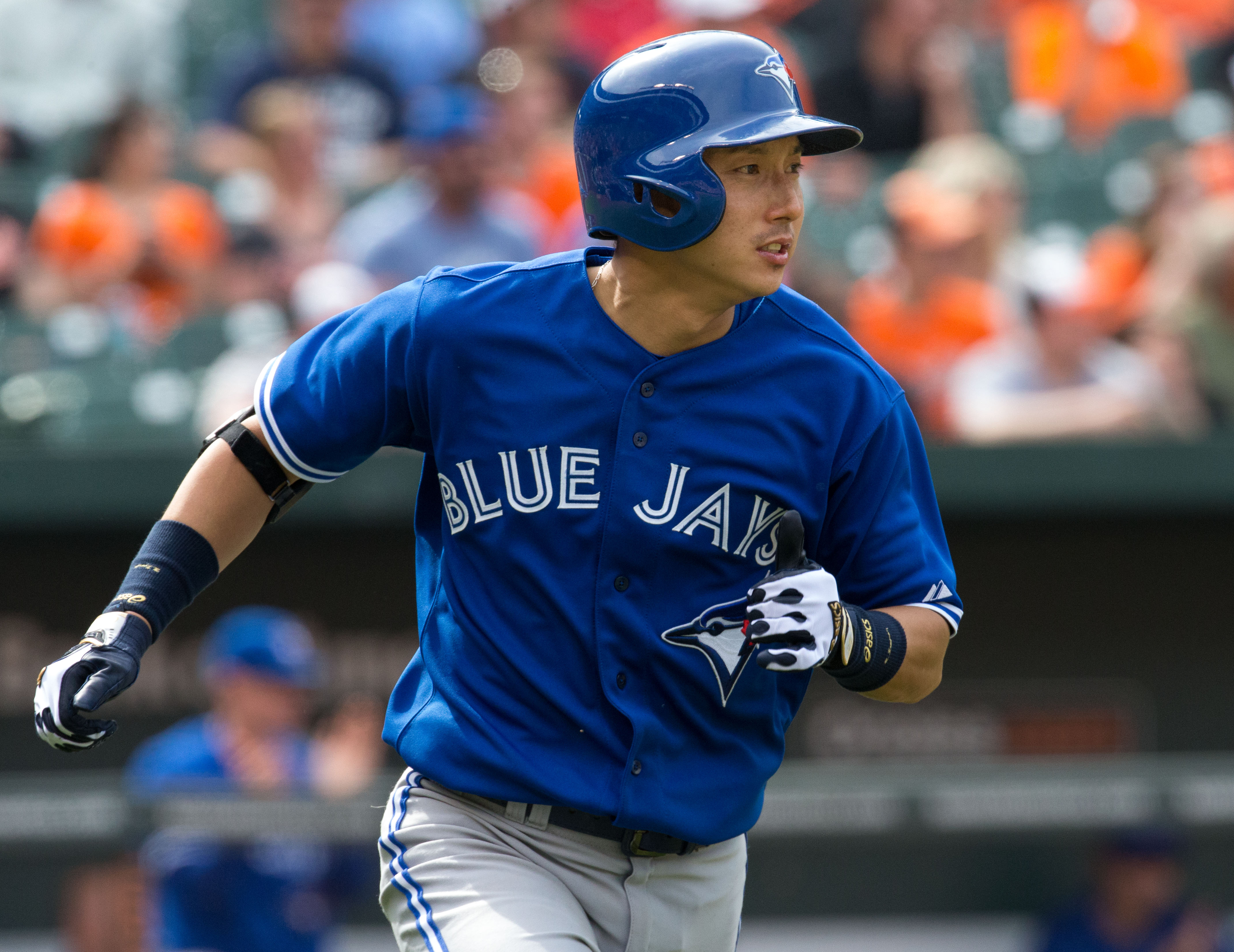 Toronto Blue Jays at Baltimore Orioles April 24, 2013